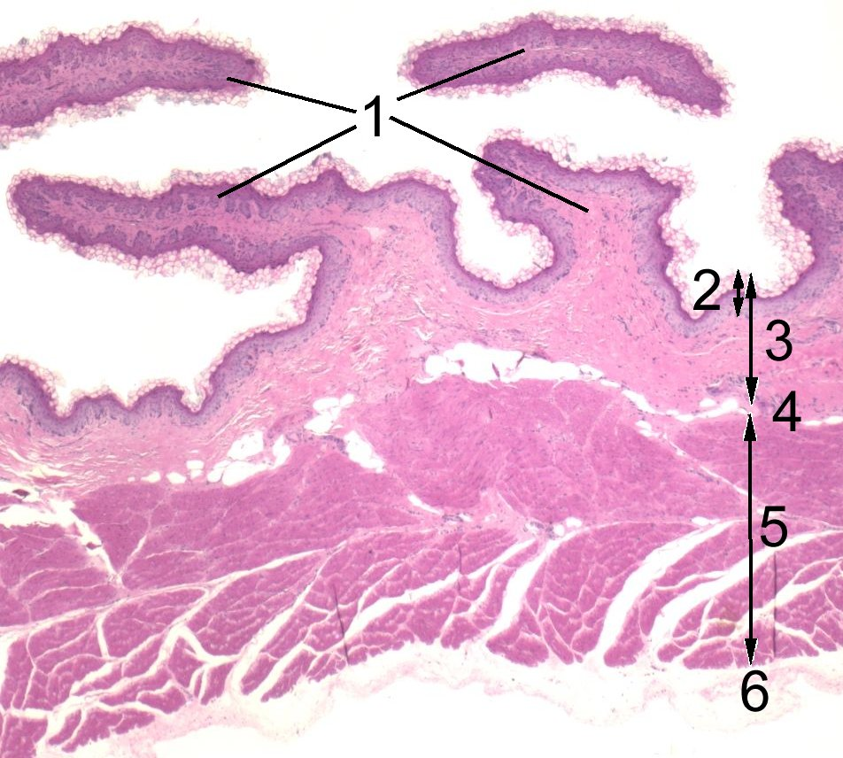 histological section of the sheep rumen. 1 ruminal papillae, 2 epithelium, 3 mucosa, 4 submucosa, 5 muscle layer, 6 serosa